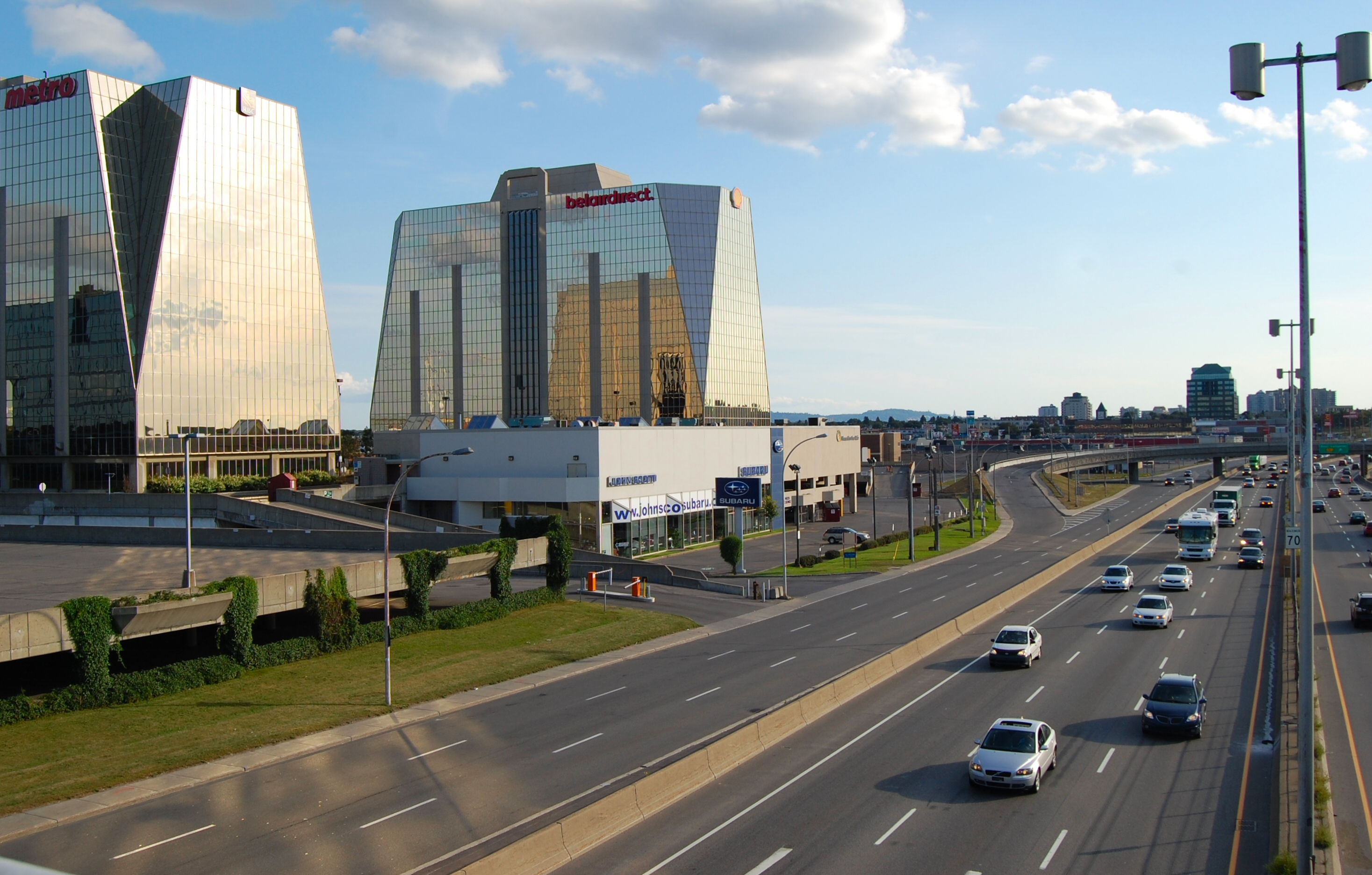 Quebec Autoroute 40 in the Anjou borough of Montreal.